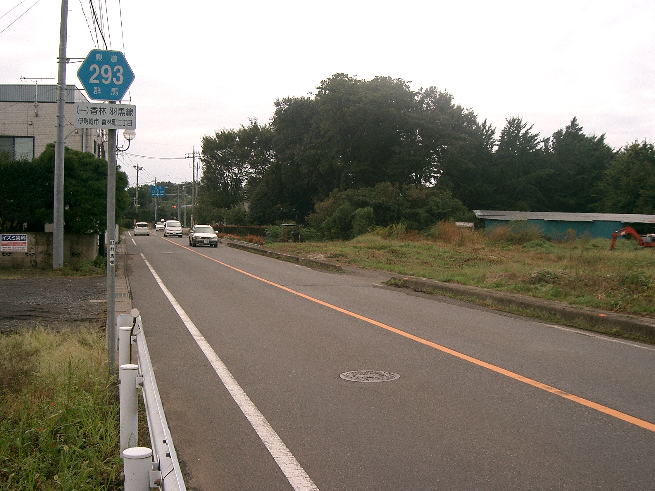 Gunma prefectural road 293 Koubayashi-Haguro line. Looking south from Koubayashi 2-chome, Isesaki city.